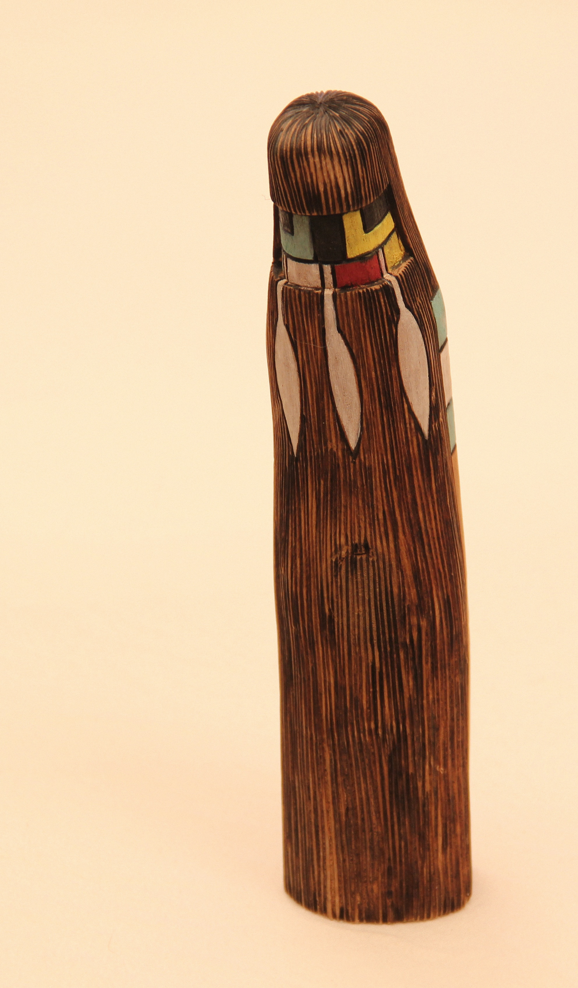 Kachina doll carved from the roots of cottonwood, about 20 cm. tall, Polacca, Arizona, USA.